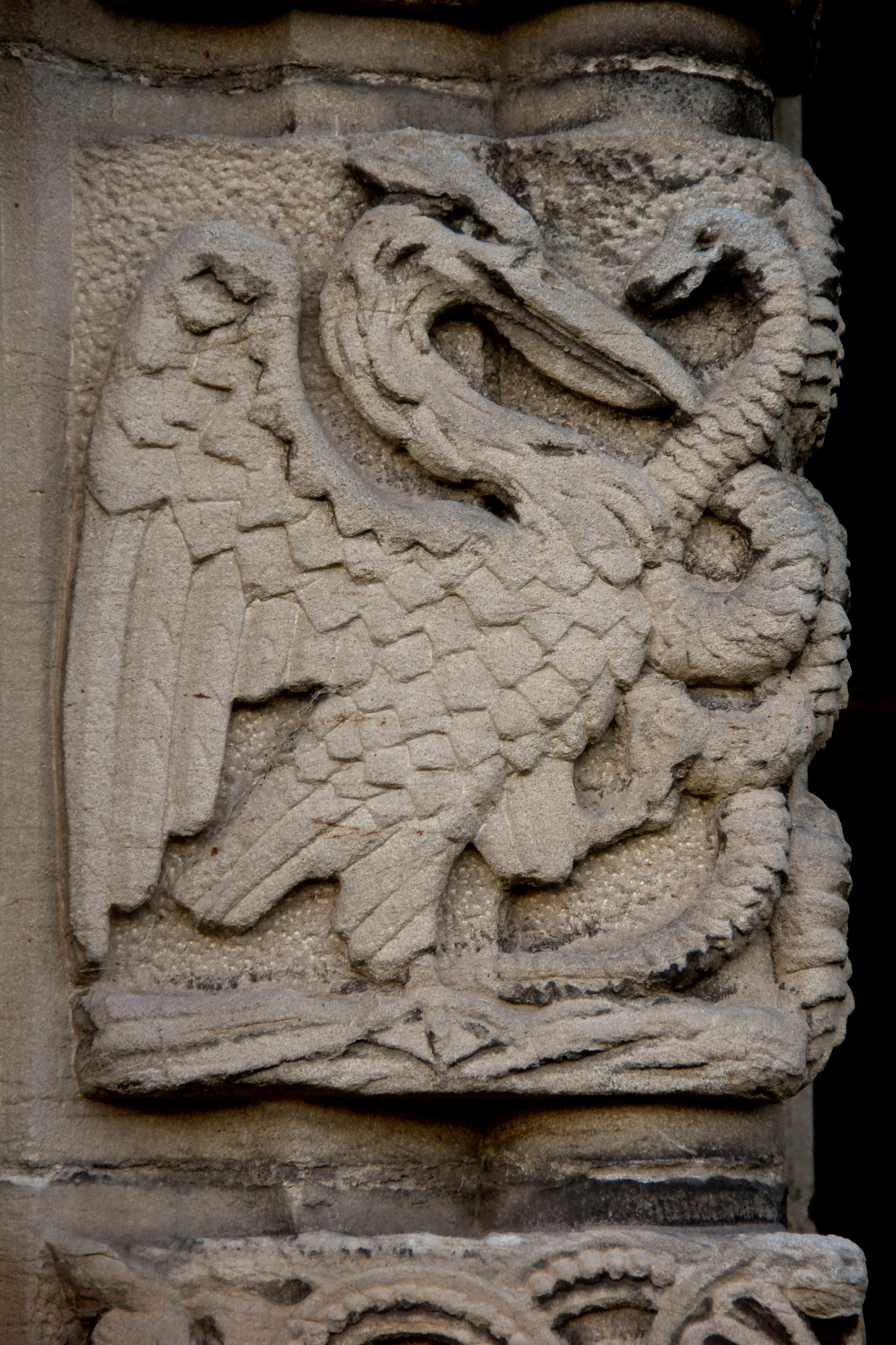 The sculpture at St Michael and All Angels, Barton-le-Street, Yorkshire, England. Built 1869-1871 to the design of William Perkin. Listed building, grade II*. Over 300 pieces of medieval sculpture from a previous church were incorporated, and further architectural sculpture was added by Charles Mawer of Leeds.